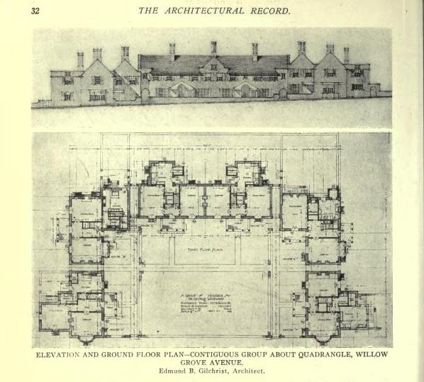 Elevation and plan for "Linden Court," 103-113 West Willow Grove Avenue, Chestnut Hill, Philadelphia, Pennsylvania (1915-16).